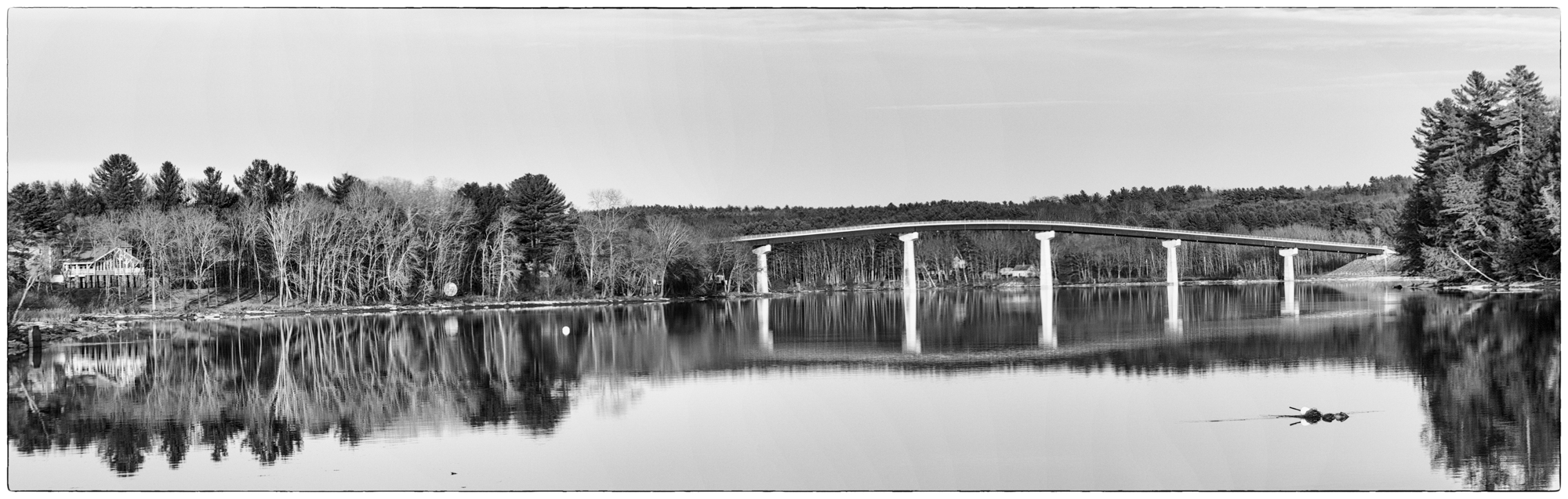 A not very imaginative name for this rather new bridge across the Kennebec River in Richmond, Maine. It likely will be renamed to honor some deserving citizen. It replaces an out of date steel swing bridge that I photographed one evening and will attach in the comments. This bridge is 115 above the river at low tide. This is a panorama stitched with PSE from three images and converted to BW with Silver Efex Pro.